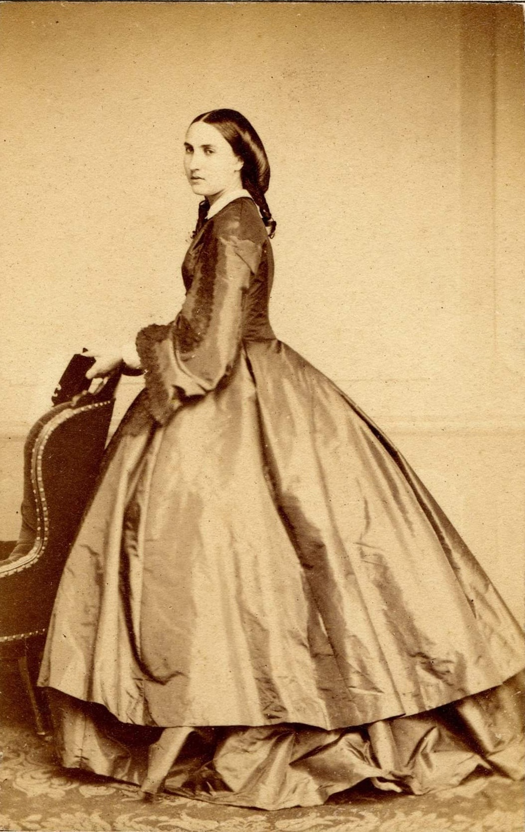 Portrait of Charlotte of Belgium (1840-1927)